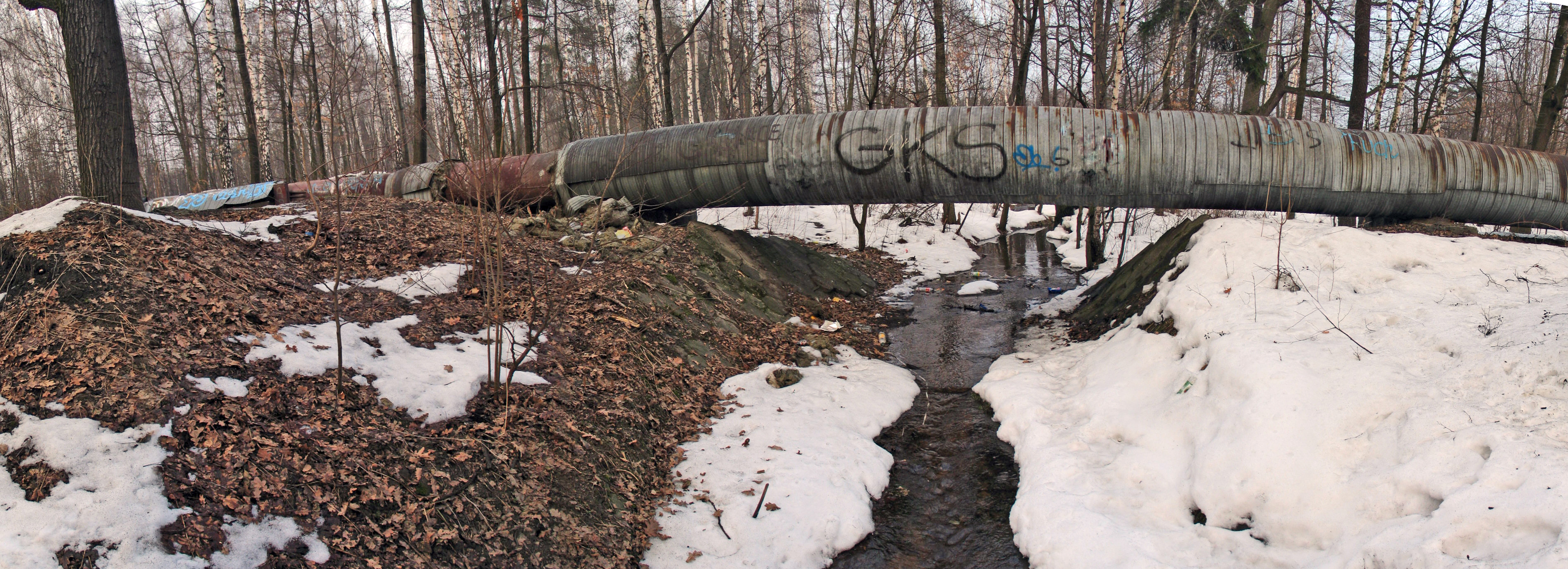 Katowice - Ochojec, Dolina Slepiotki w poblizu zrodla. Katowice Ochojec, Slepiotka Valley, in the forest, near to its spring.